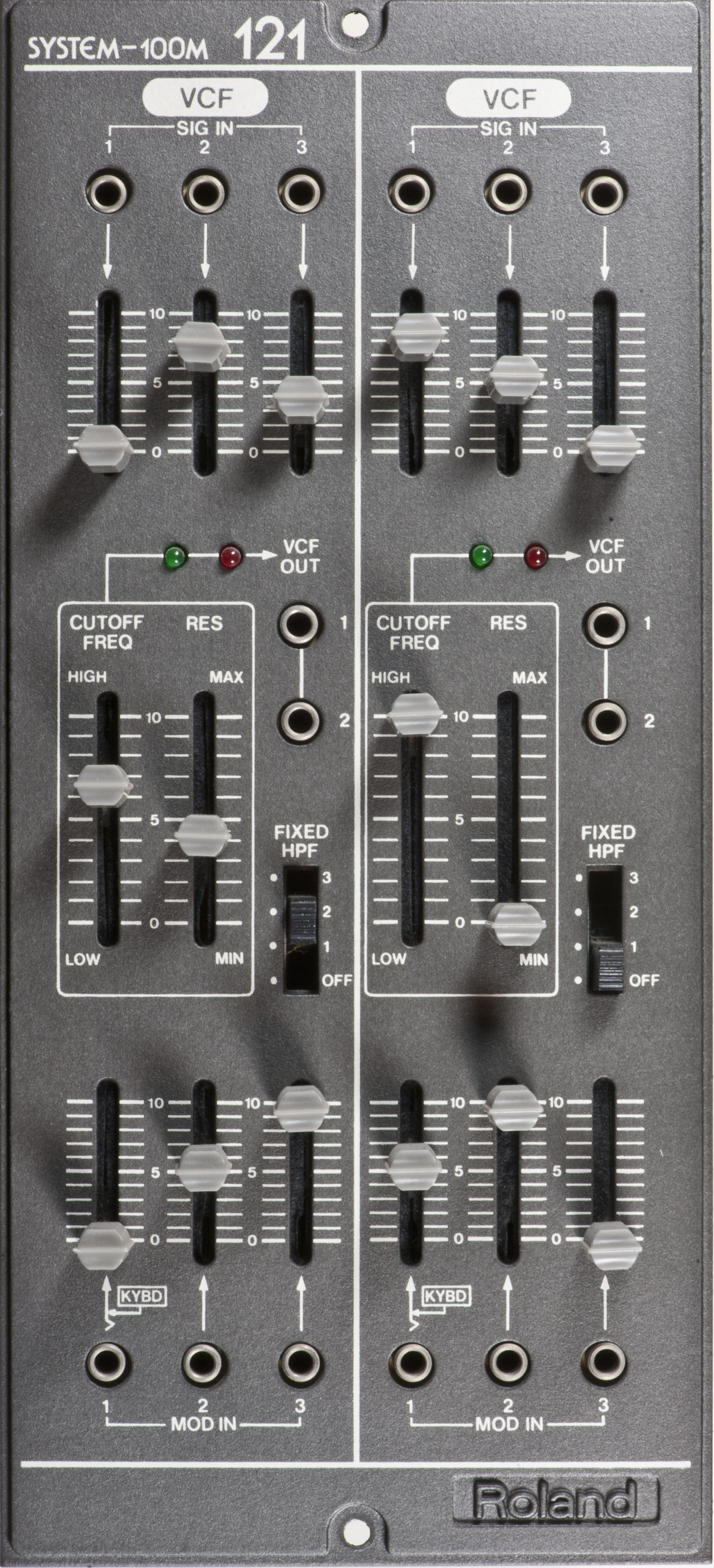 ROLAND Modular synthesizer SYSTEM-100M, Modul 121 (dual VCF) Two independent voltage control filters are part of this package. Each VCF includes the added feature of a built-in foxed high pass filter with a switch for turning the high pass functio off or selecting one of three cutoff points. Each VCF also includes three audio and three control inputs, and LED's for following signal flow. The green LED's light when a signal appears at the outputs, the red LED's light for overdrive (distort) condition.